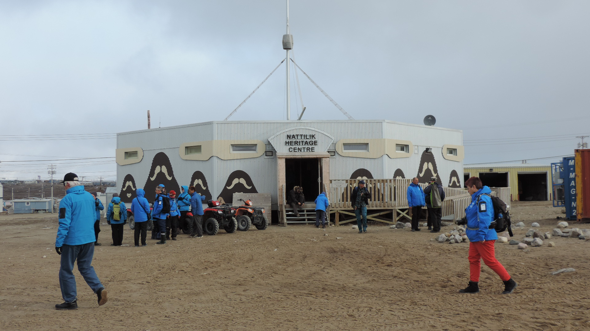 Nattilik Heritage Centre, Gjoa Haven, September 2019. Tourists from Adventure Canada milling about.